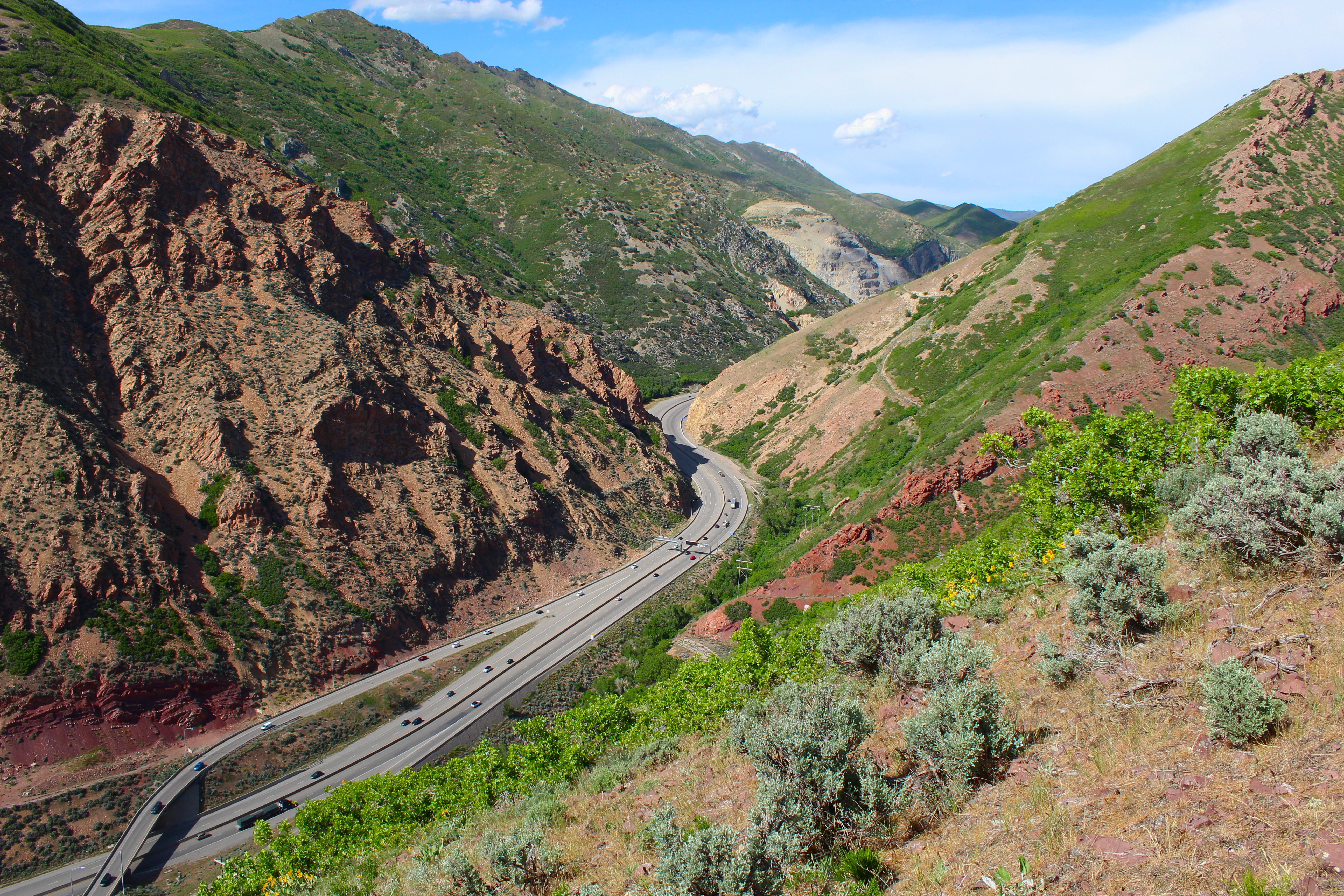 Looking east at the mouth of Parley's Canyon, taken from Grandeur Peak.